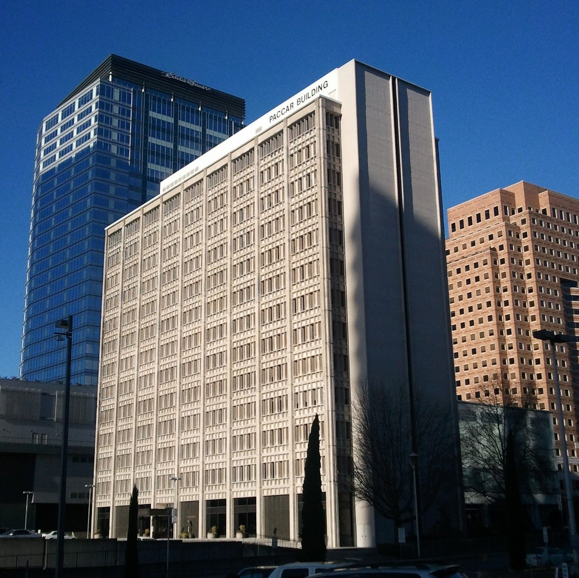 High rise buildings in Bellevue, Washington. Looking west from the former John Danz building on 106th Ave NE. Paccar Tower at center.